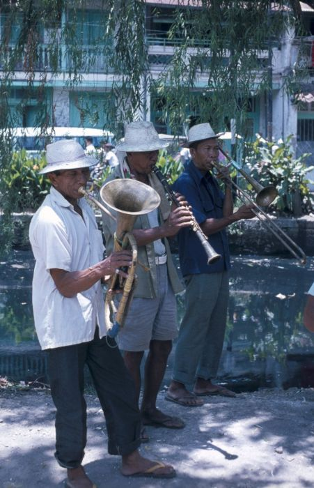 Tanjidor orchestra celebrating Chinese New Year